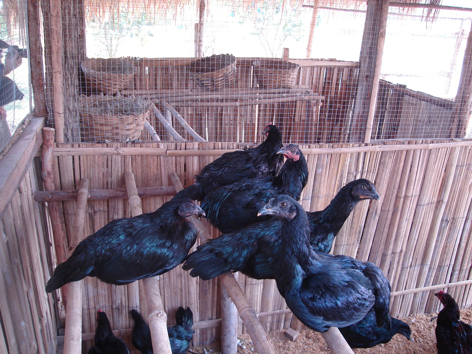 in Royal Flora Expo 2006, Chiangmai, Thailand